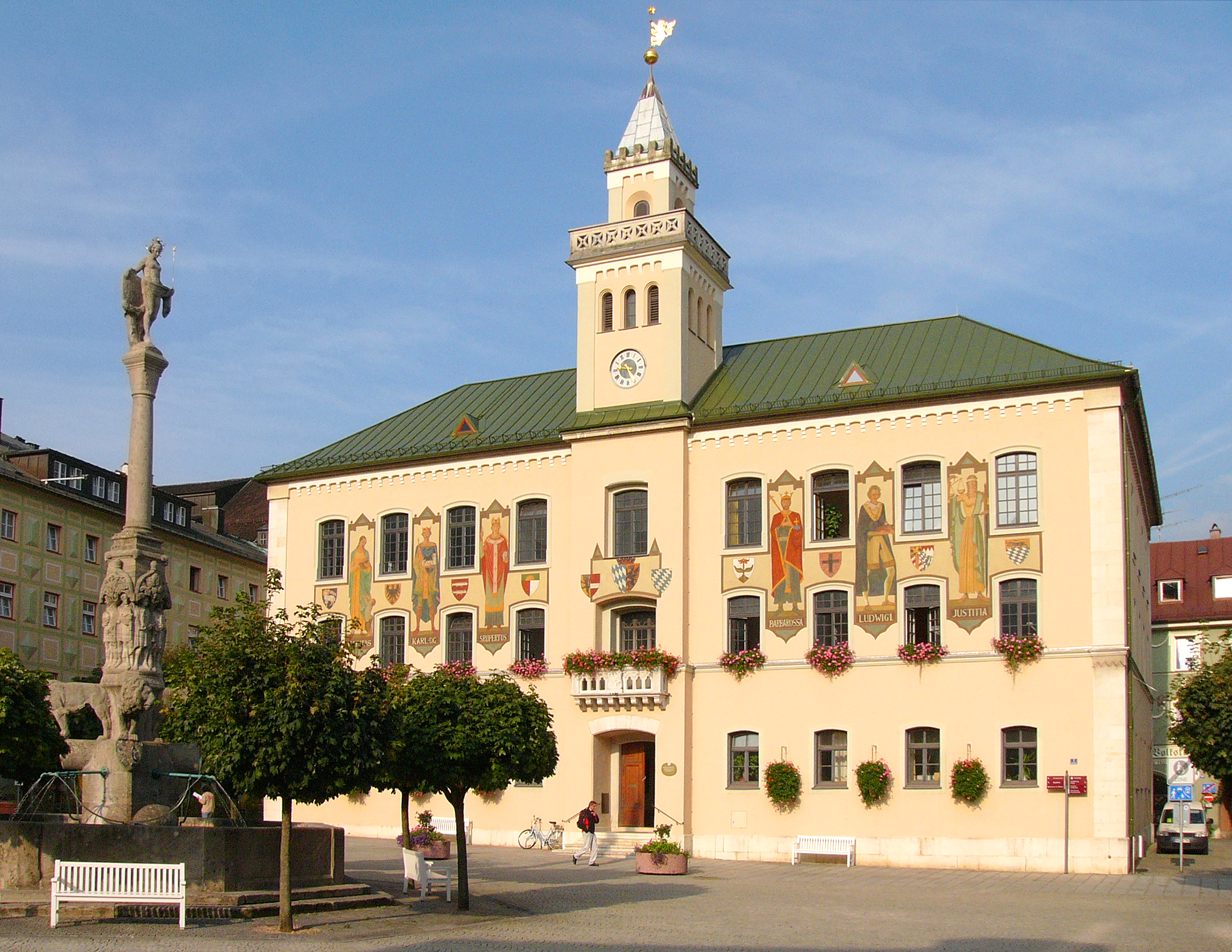 View to the town hall in Bad Reichenhall, Bavaria, Germany